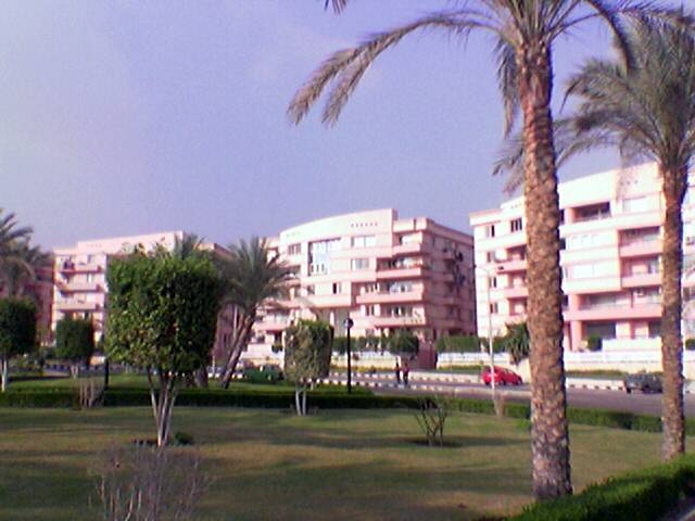 El-Rehab